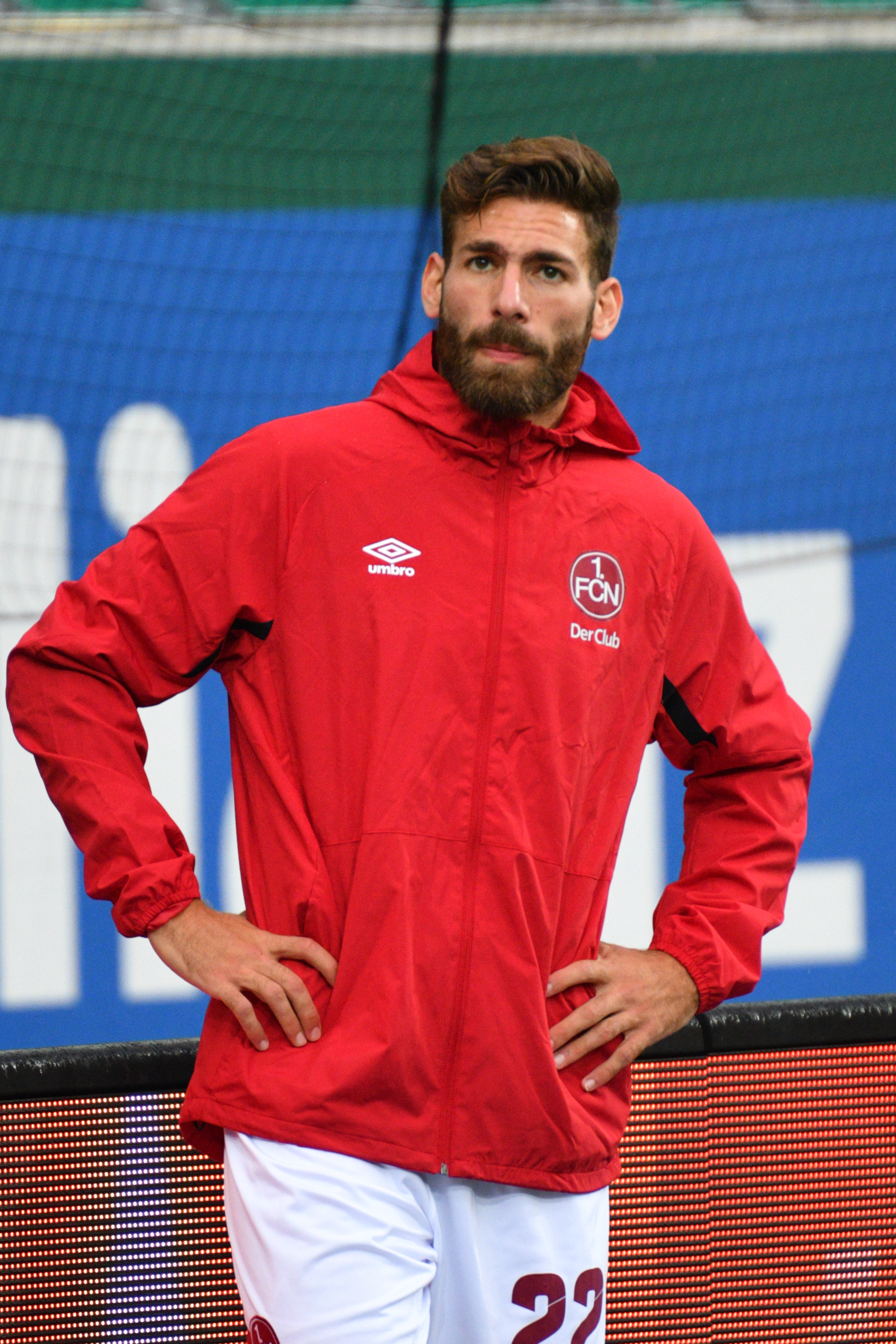 Austrian soccer league season 2019/20, friendly pre-season match SK Rapid Wien vs. 1. FC Nürnberg. Picture shows: Enrico Valentini (FCN).